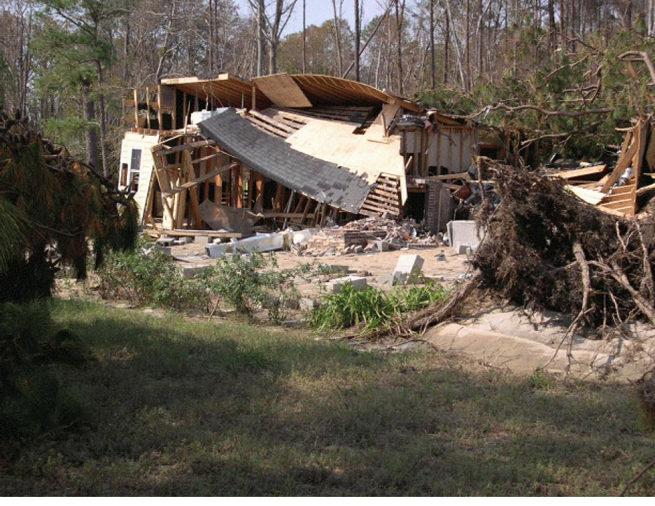 A small cluster of four homes about 5 miles west of Edenton, NC, occupied year-round were completely destroyed by the surge from Hurricane Isabel, two of which were moved up to 20 feet off their concrete block foundations.